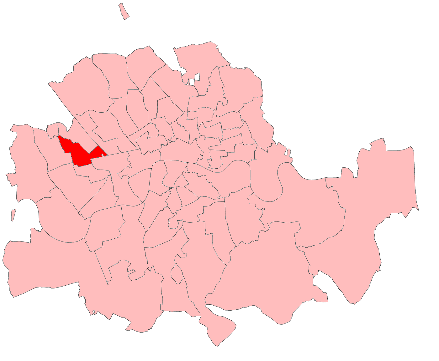 A map of Paddington South constituency within the Metropolitan Board of Works area, as it existed from 1885 to 1918.